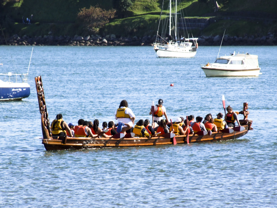 Free photo of a traditional Māori Waka, at Pilot Bay, Tauranga